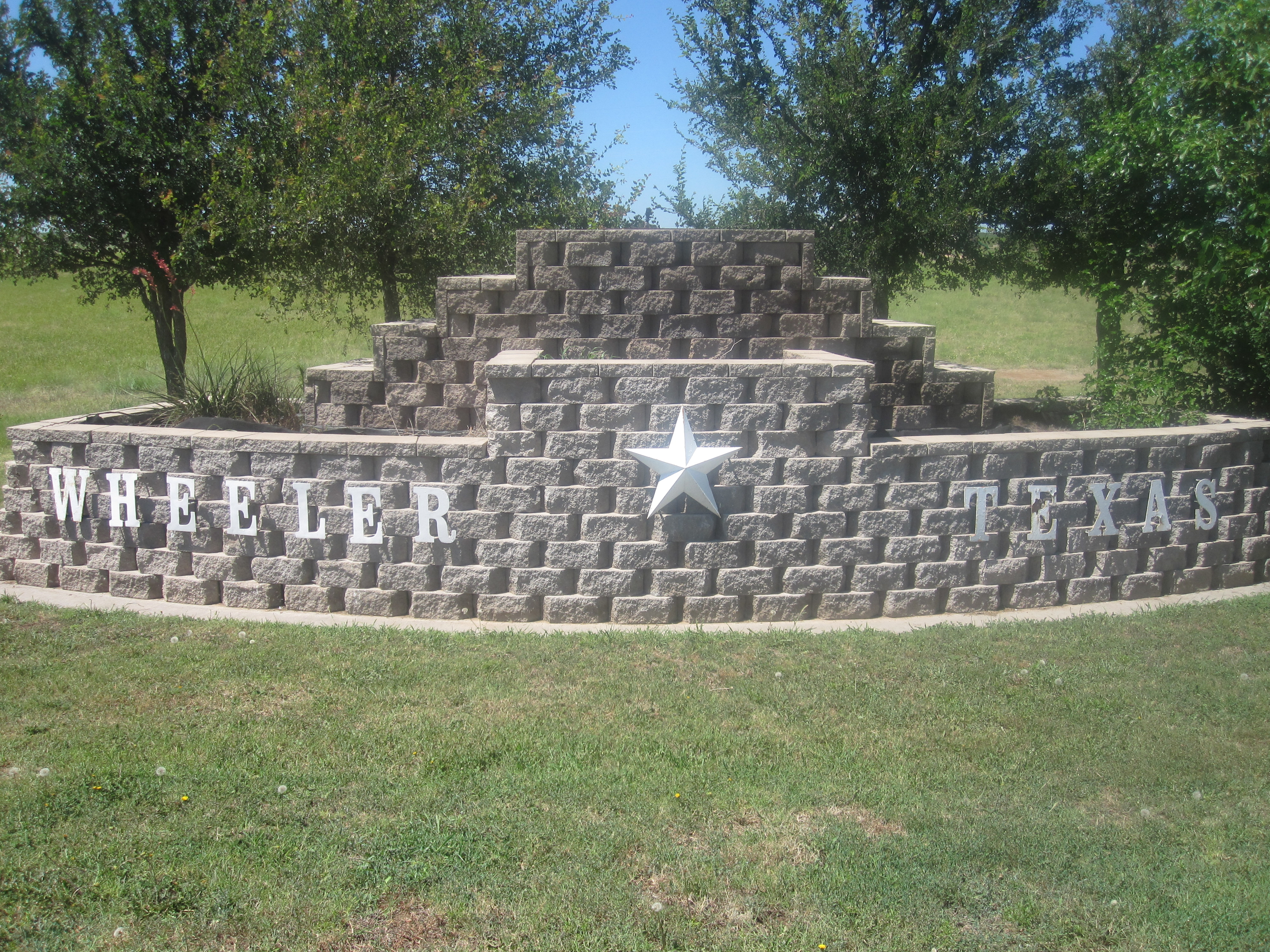 I took photo with Canon camera in Wheeler, TX.